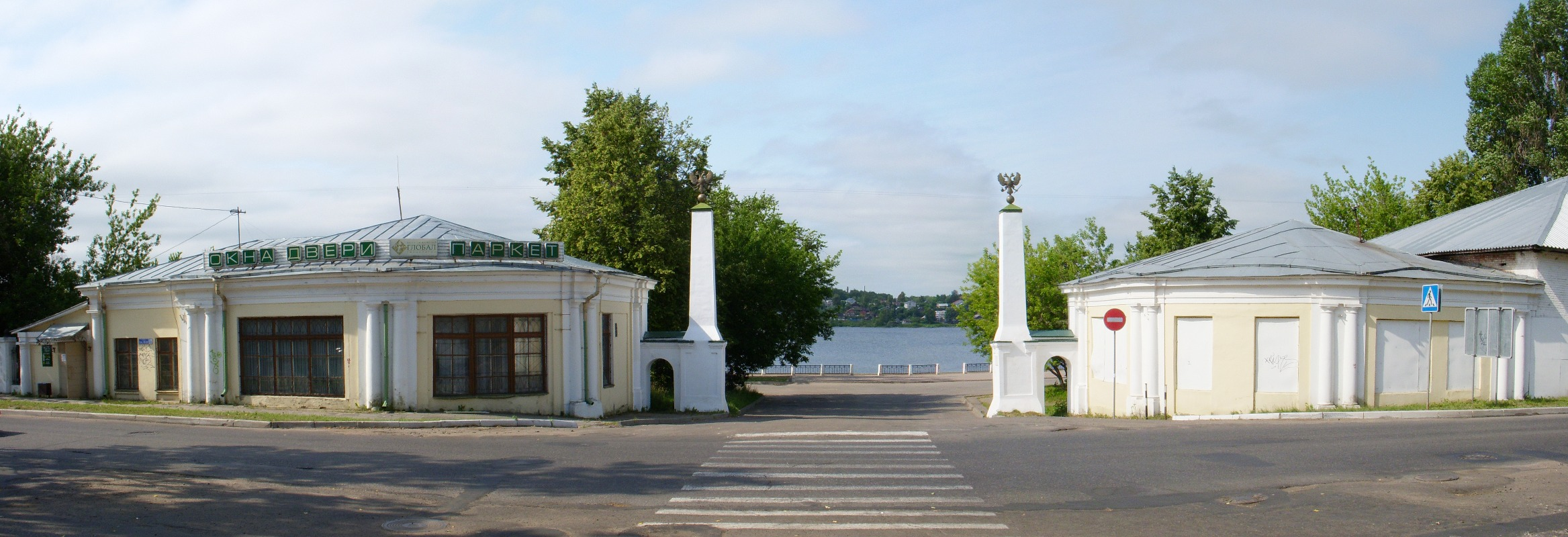 Moscow gates in Kostroma (Russia)